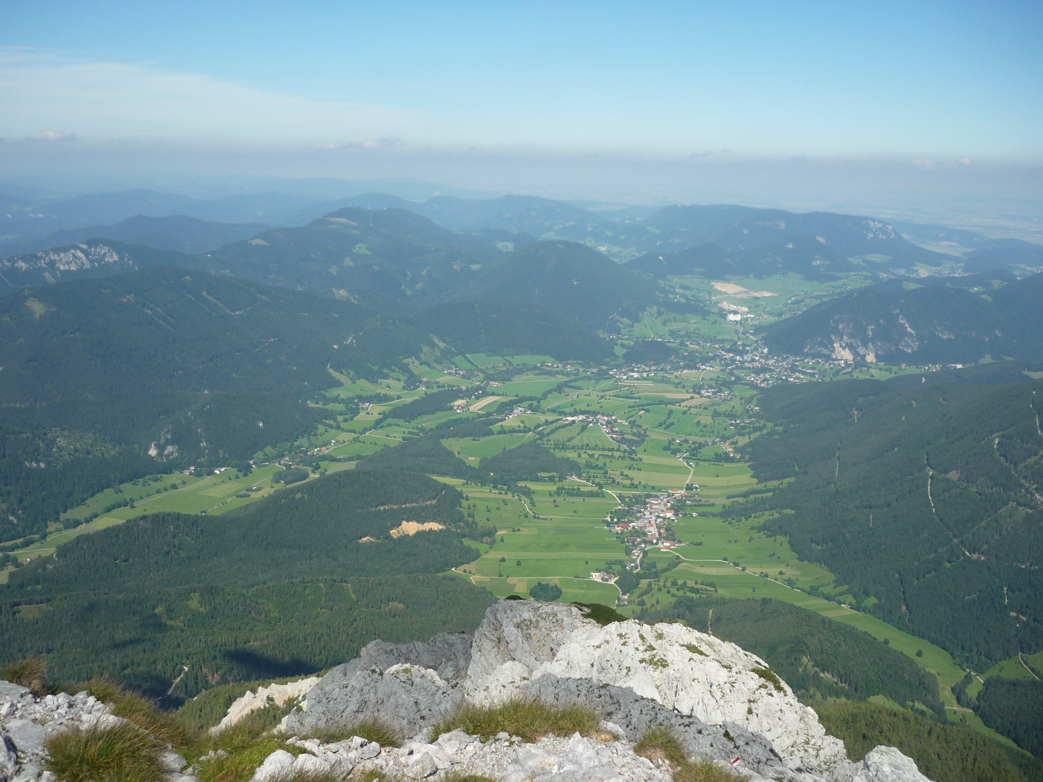 Puchberg taken from the Schneeberg